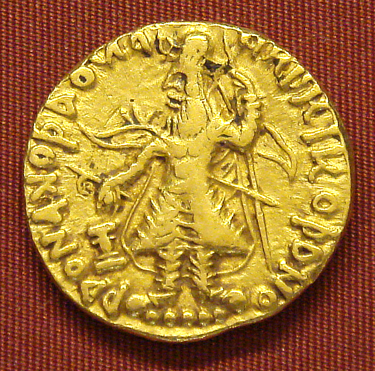 Coin of Kanishka. British Museum. Personal photograph 2006.